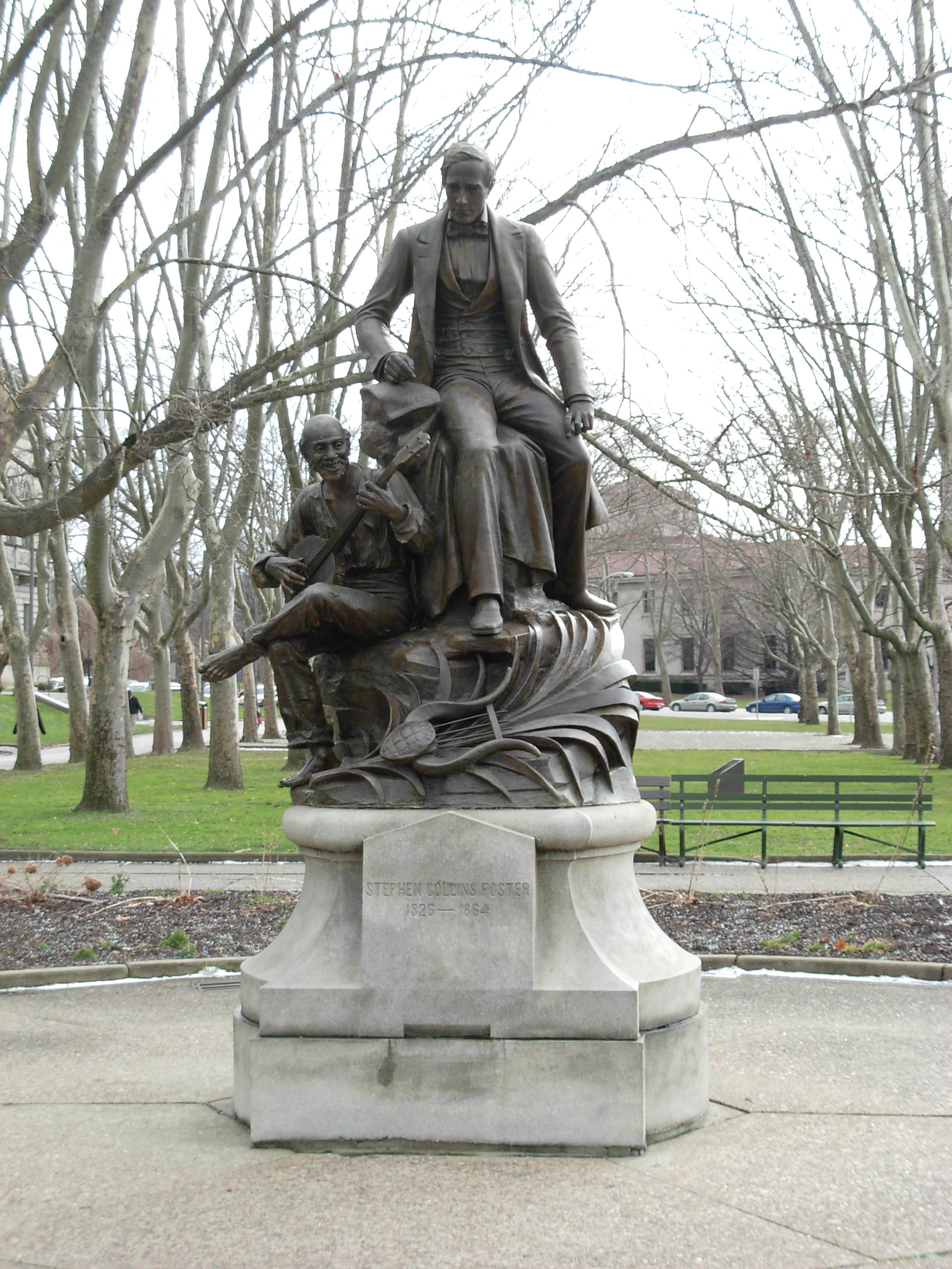 Monument to Stephen Foster at Carnegie Library in Pittsburgh. Sculptor: Giuseppe Moretti. Photo by myself.